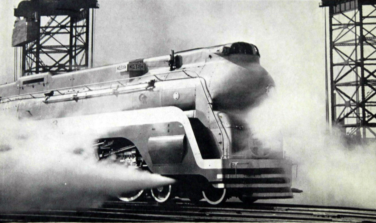 Postcard photo of the streamlined steam engine #3460, also known as the "Blue Goose", which was the power for the Santa Fe Railroad's train, The Chief.